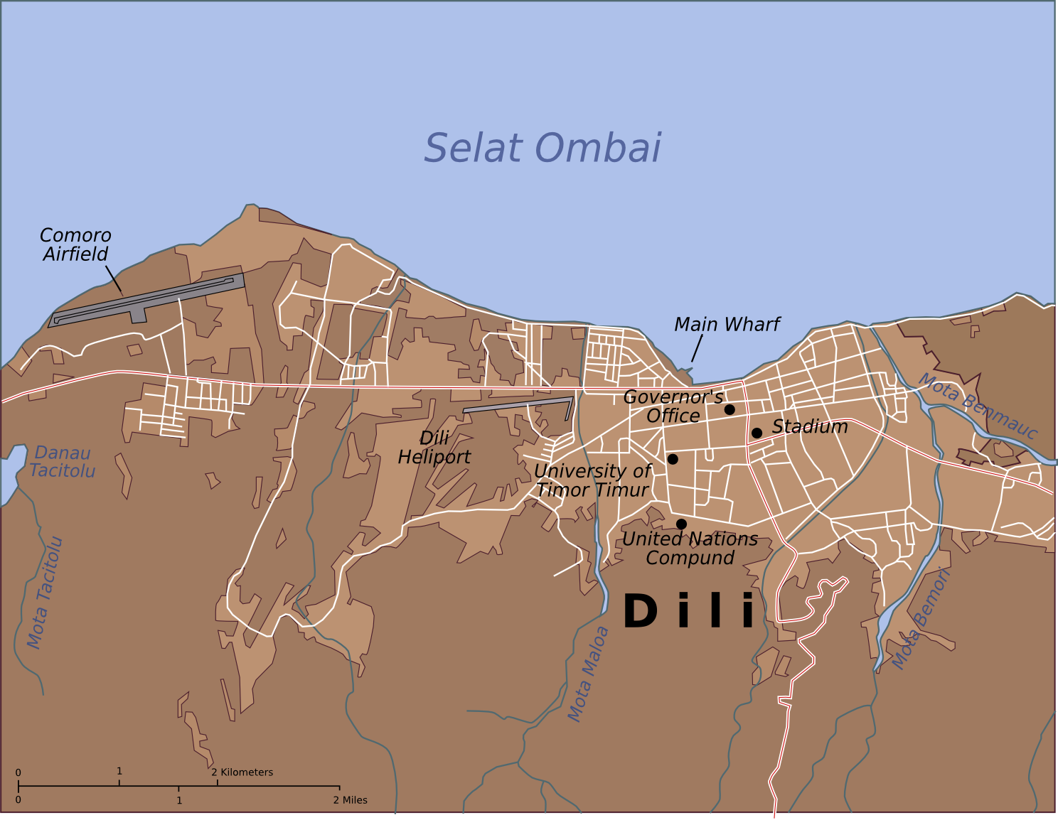 PNG version of :Image:Timor oriental dili.svg, exported by jpatokal map: East Timor Map of: East Timor